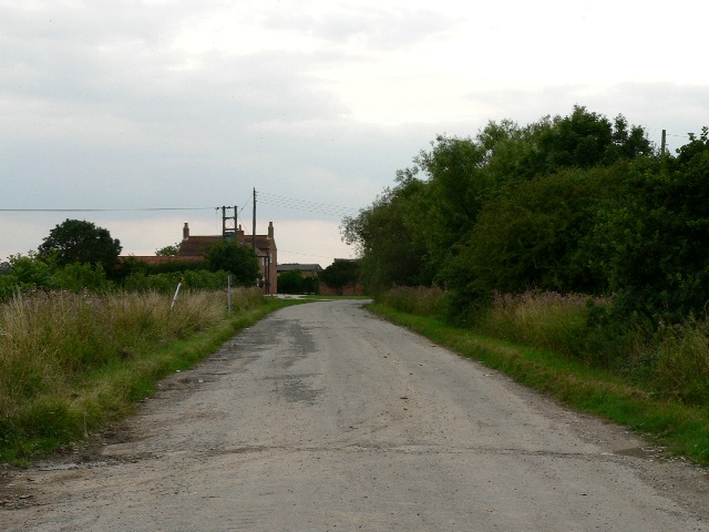 Layby, Harlthorpe, East Riding of Yorkshire, England.Off the A163 to the West.